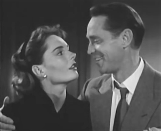 Doe Avedon (aka Betty Harper) & Franchot Tone in Jigsaw - cropped screenshot